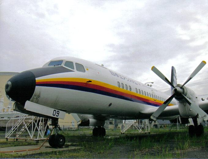 ex-Japan Air Commuter's NAMC YS-11 (Japan Air System livery) on display, in 2008